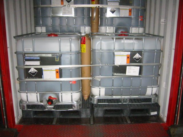 cordstrap polyester lashing and dunnage bag application